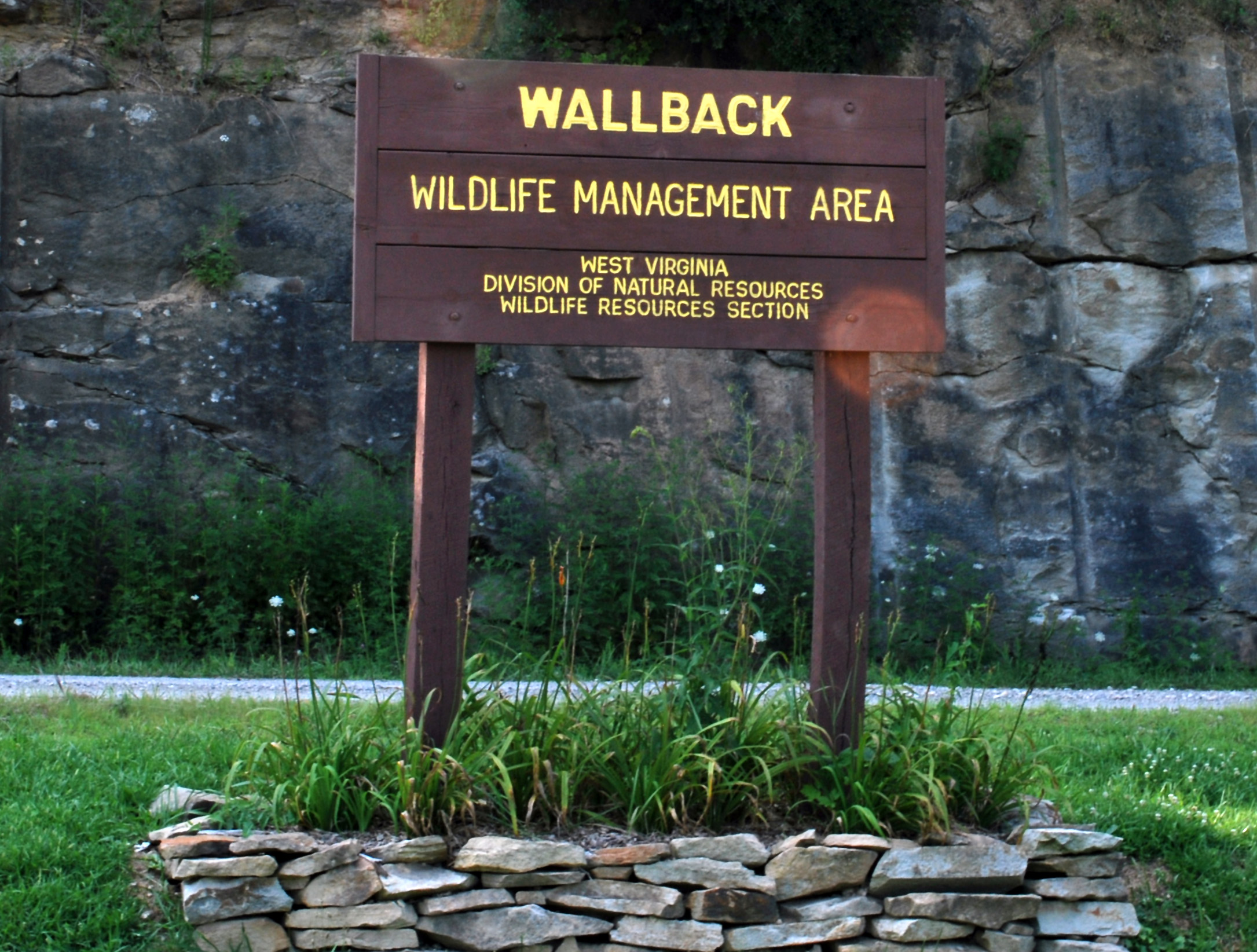 Entrance sign for Wallback Wildlife Management Area in Clay County, West Virginia.